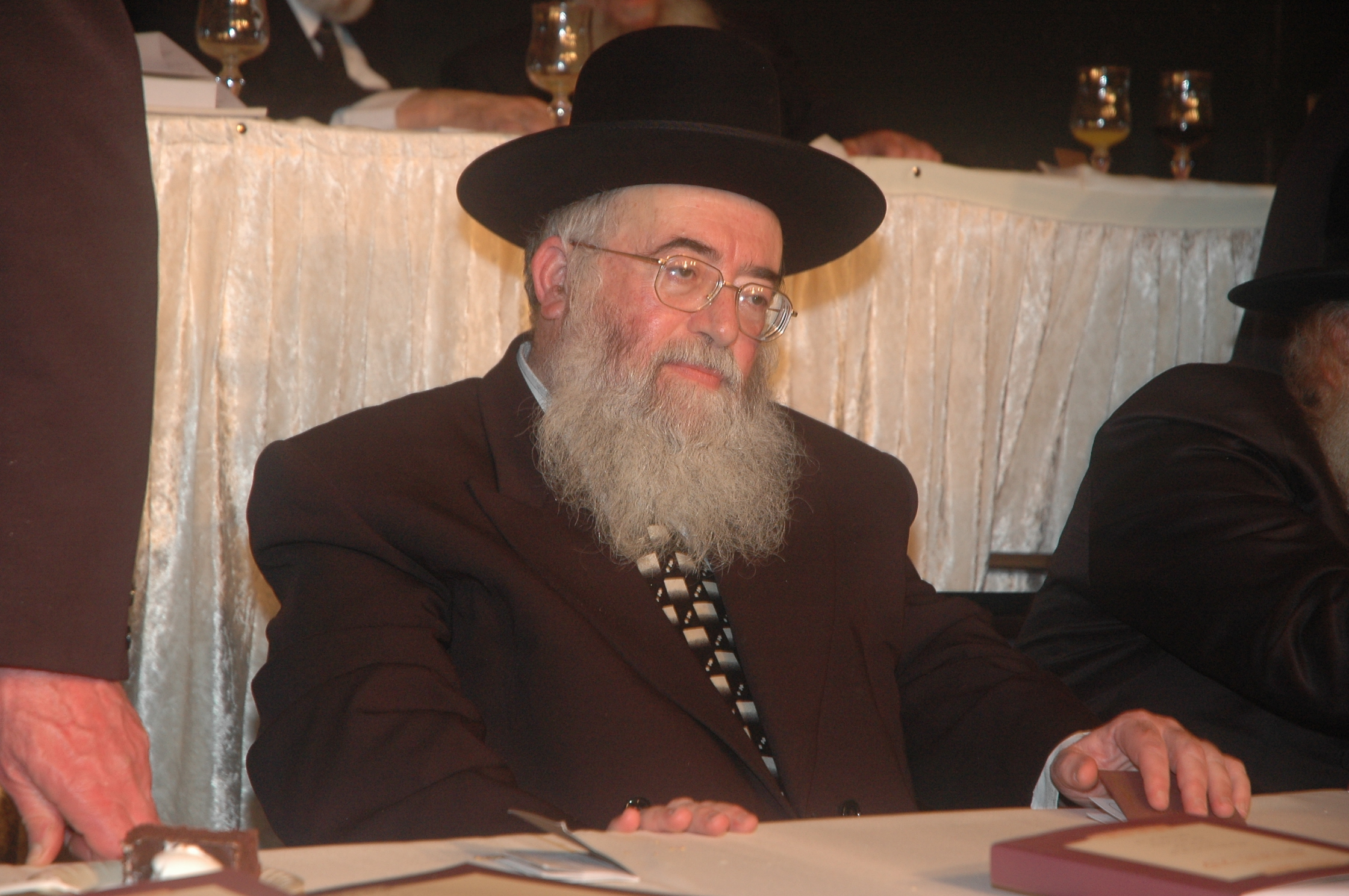 rabbi itzhak yeruham borodyanski